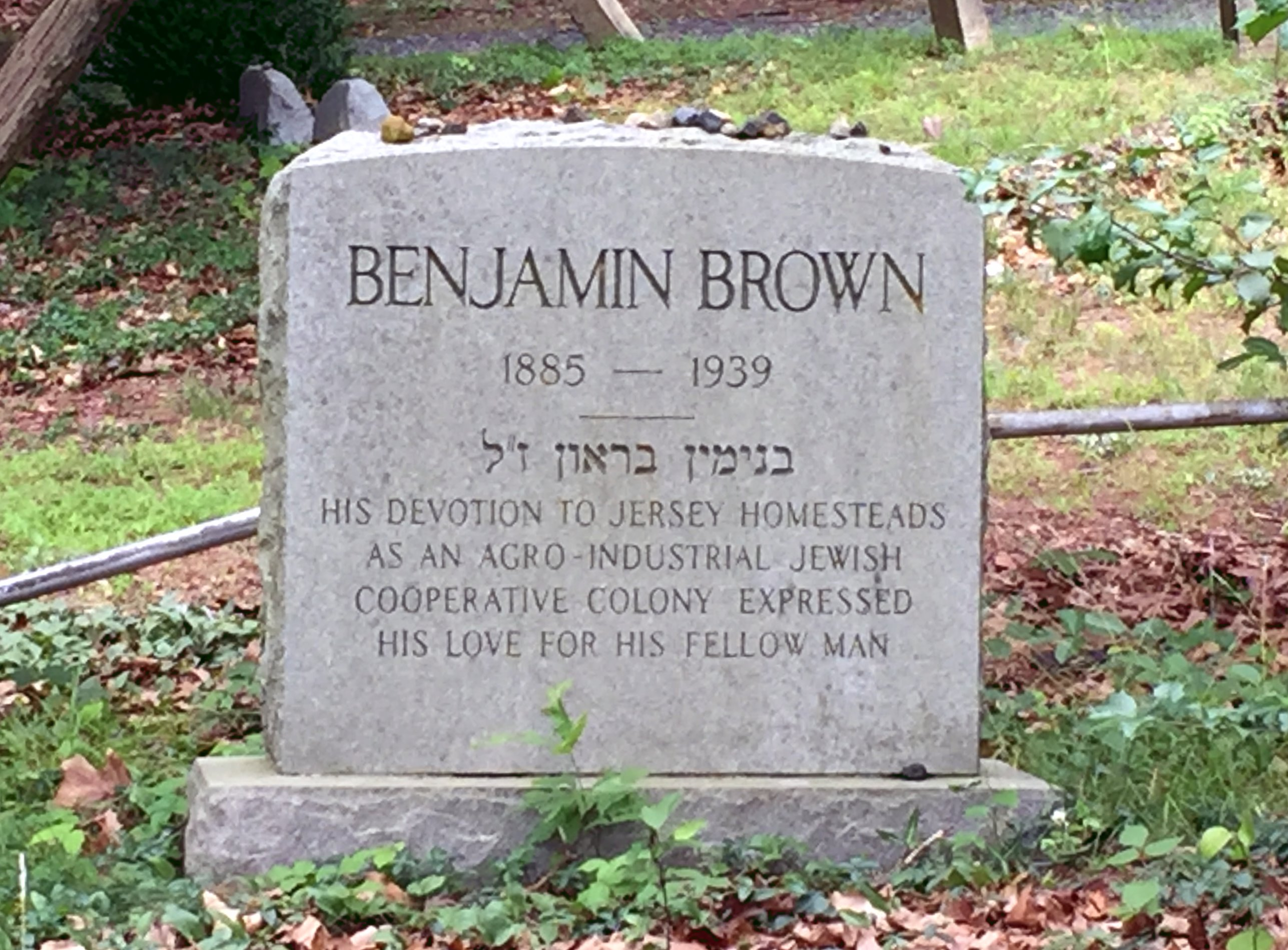 Benjamin Brown grave site - Roosevelt, N.J.